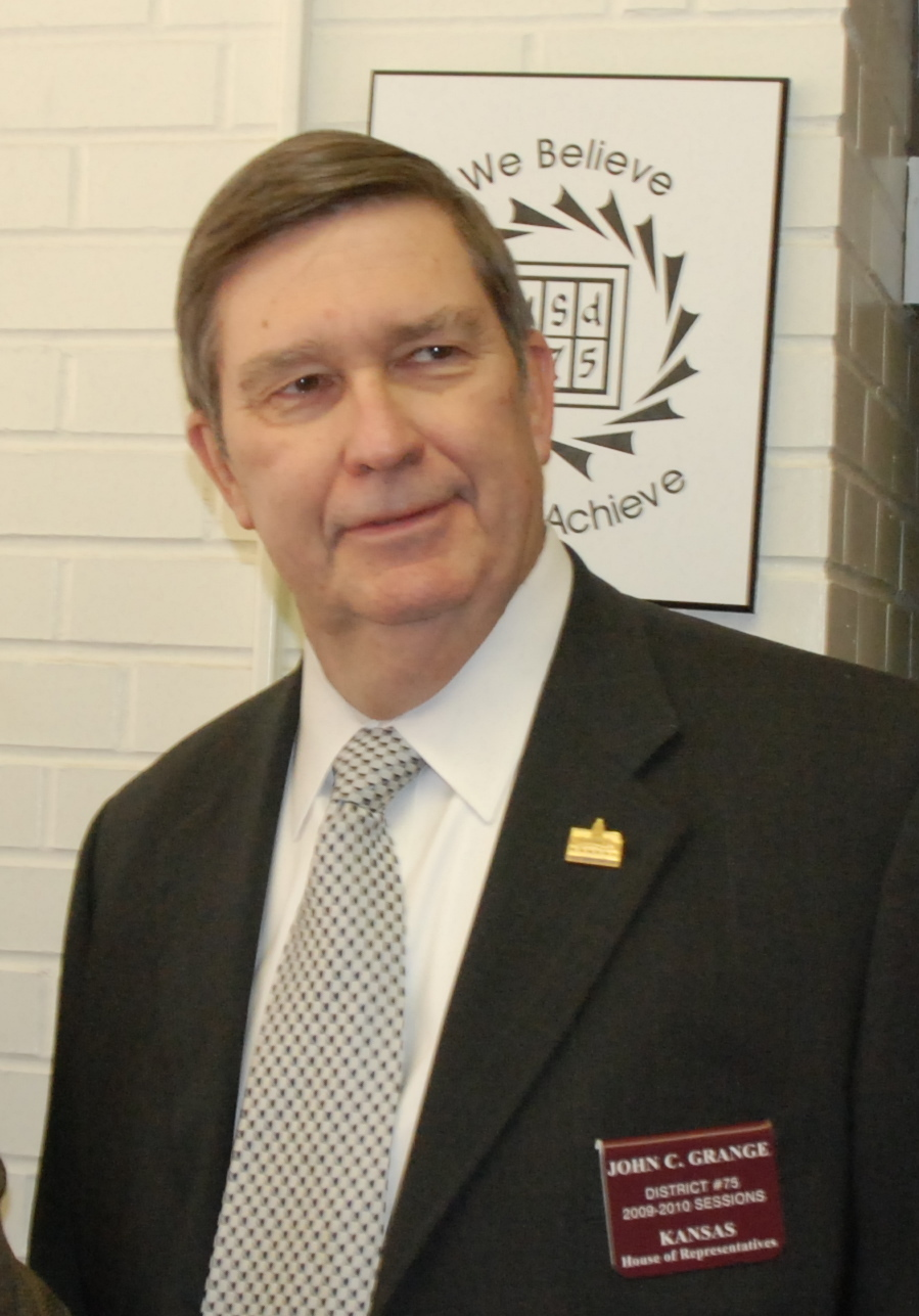 Representatives Barbara Bollier (left), Tom Hawk and John Grange talk to Morris Hill Elementary Principal Greg Lumb before departing the facility Wednesday.